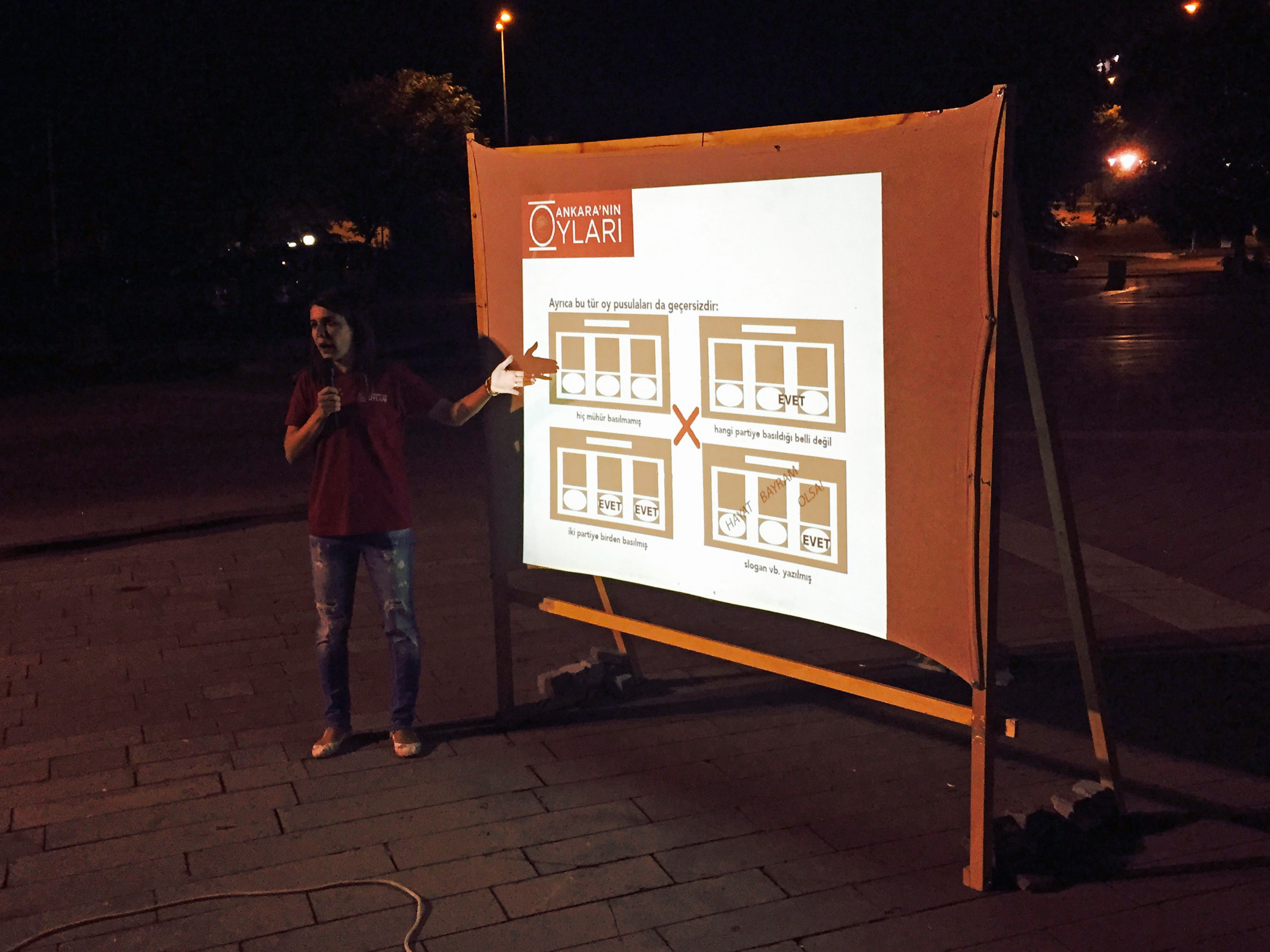 Ankar'nın Oyları NGO giving a presentation on ballot box safety in preparation for the 1 November 2015 general election in Turkey